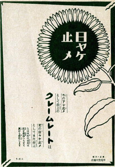 Creme Lait, CM, Asahi Graph August 6,1924